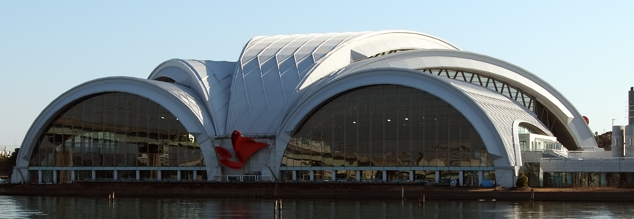 Tokyo Tatsumi International Swimming Center, at Tatsumi, Tokyo, Japan, design by Mitsuru Senda in 1993.